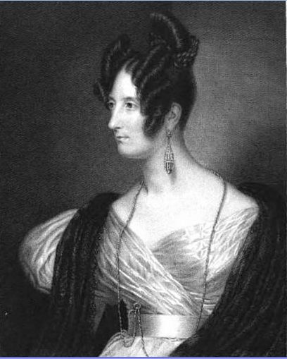 Charlotte Rouse Boughton, née Knight: engraving, from Court Magazine, July 1834